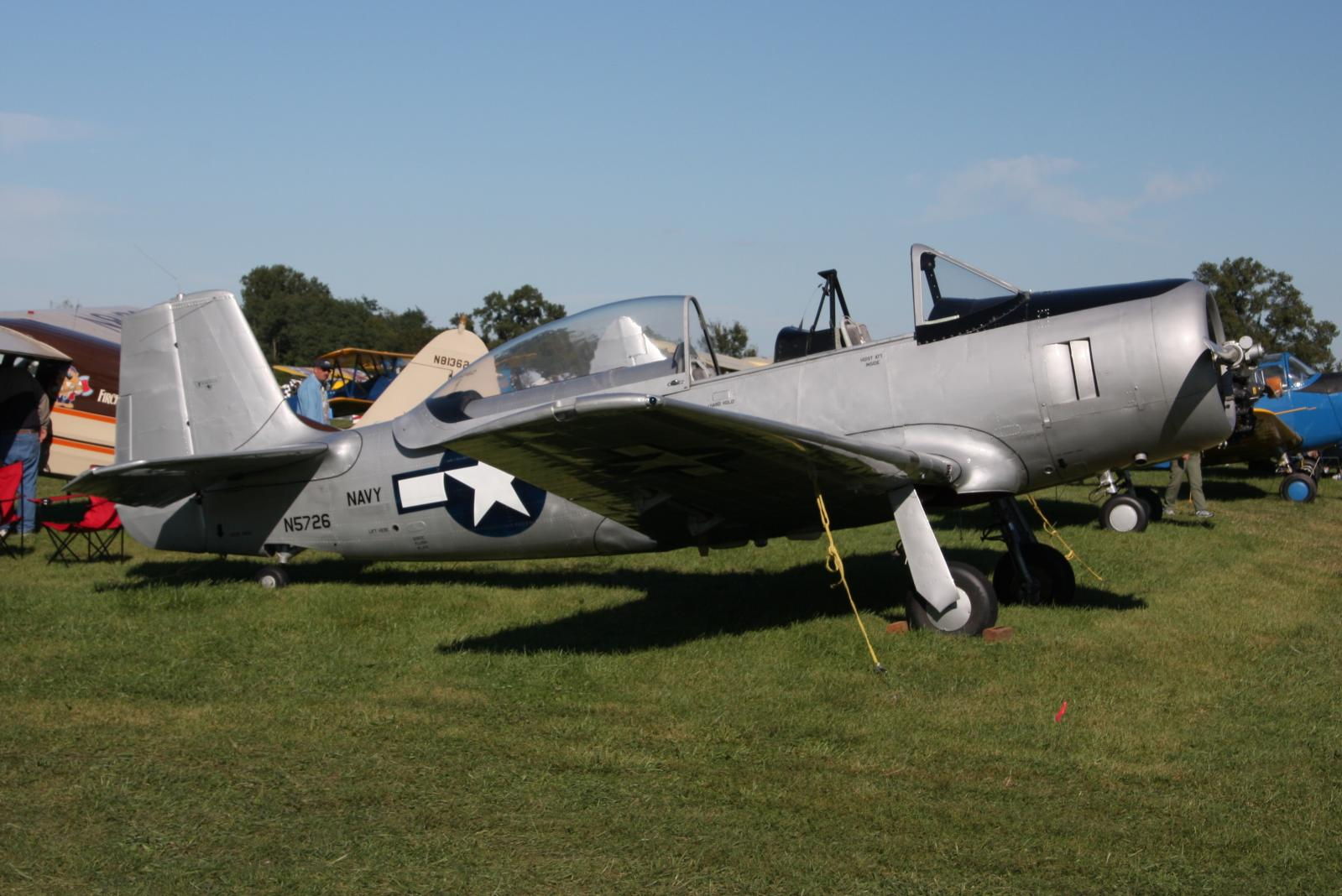 1947 Fairchild XNQ-1 C/N 75726